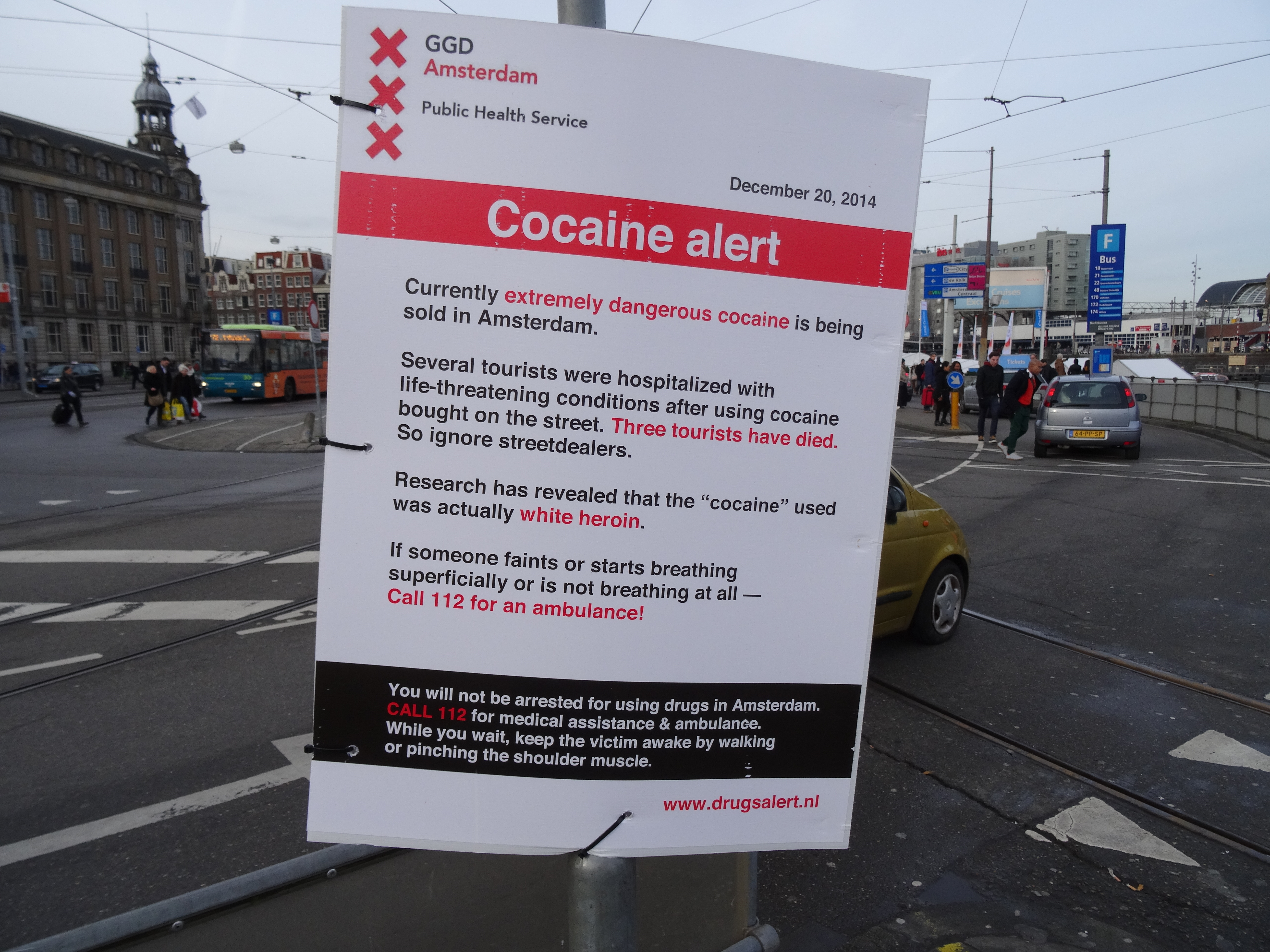 Cocaïne alert sign dated December 20, 2014: "Currently extremely dangerous cocaïne is being sold in Amsterdam. Several tourists were hospitalized with life-threatening conditions after using cocaine bought on the street. Three tourists have died. So ignore street dealers. Research has revealed that the "cocaine" used was actually white heroin. If someone faints or starting breathing superficially or is not breathing at all — Call 112 for an ambulance!"